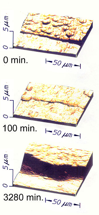 STM image of surfaces at the edge of a 1 μm thick layer of ta-C "diamond-like" coating on 304 stainless steel after various durations of tumbling in a slurry of 240 mesh SiC abrasive. The first 100 min shows a burnishing away from the coating of an overburden of soft carbons than had been deposited after the last cycle of impacts converted bonds to sp3. On the uncoated part of the sample, about 5 μm of steel were removed during subsequent tumbling while the coating completely protected the part of the sample it covered.